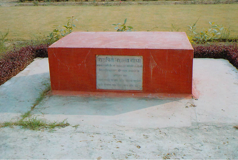 The Gandhi Memorial stone set up by V. A. Sundaram in the 1940s next to his house 'Krishnakutir' on the grounds of the Benares Hindu University in Benares. The stone was to commemorate the spot where Gandhi performed a prayer during his visit to Sundaram's house in 1942.